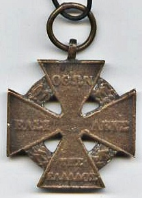 Griechenland, Denkzeichen für das Bayerische Hilfskorps, 1833, Vorderseite Text reads: . ΟΘΩΝ ΒΑΣΙ - ΛΕΥΣ . ΤΗΣ . ΕΛΛΑΔΟΣ ΟΘΩΝ ΒΑΣΙΛΕΥΣ ΤΗΣ ΕΛΛΑΔΟΣ , that is: "Otto King of Greece" The other side reads: ΤΩι Β ΒΑΥΑΡΙΚΩι ΕΠΙΚΟΥΡΙΚΩι ΣΤΡΑΤΩι meaning: TO THE ROYAL BAVARIAN AUXULIARY ARMY